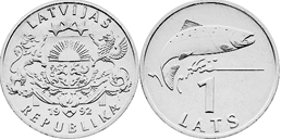 1 Lats Latvia - Salmon Obverse: The large coat of arms of the Republic of Latvia, with the year 1992 inscribed below, is placed in the centre. The inscriptions LATVIJAS and REPUBLIKA, each arranged in a semicircle, are above and beneath the central motif, respectively. Reverse: A salmon, the symbol of Latvia's abundant water resources, is shown jumping out of the water from left to right. The numeral 1, with the inscription LATS in a semicircle beneath it, is centered in the lower part of the coin. Edge: Two inscriptions LATVIJAS BANKA (Bank of Latvia), separated by rhombic dots.